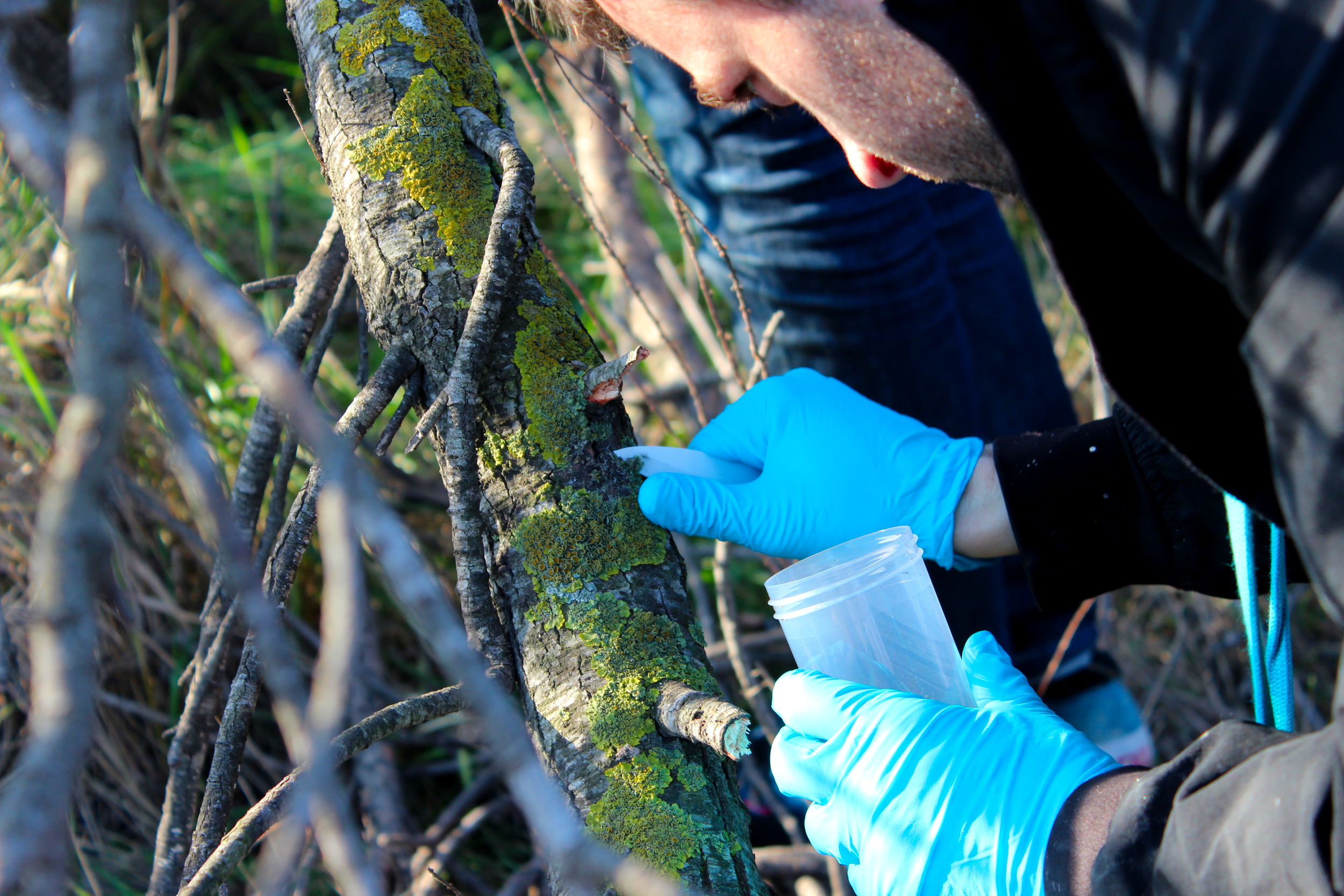 Lichen bioaccumulates the atmospheric pollutants, it is sampled in suitu for further chemical analyses